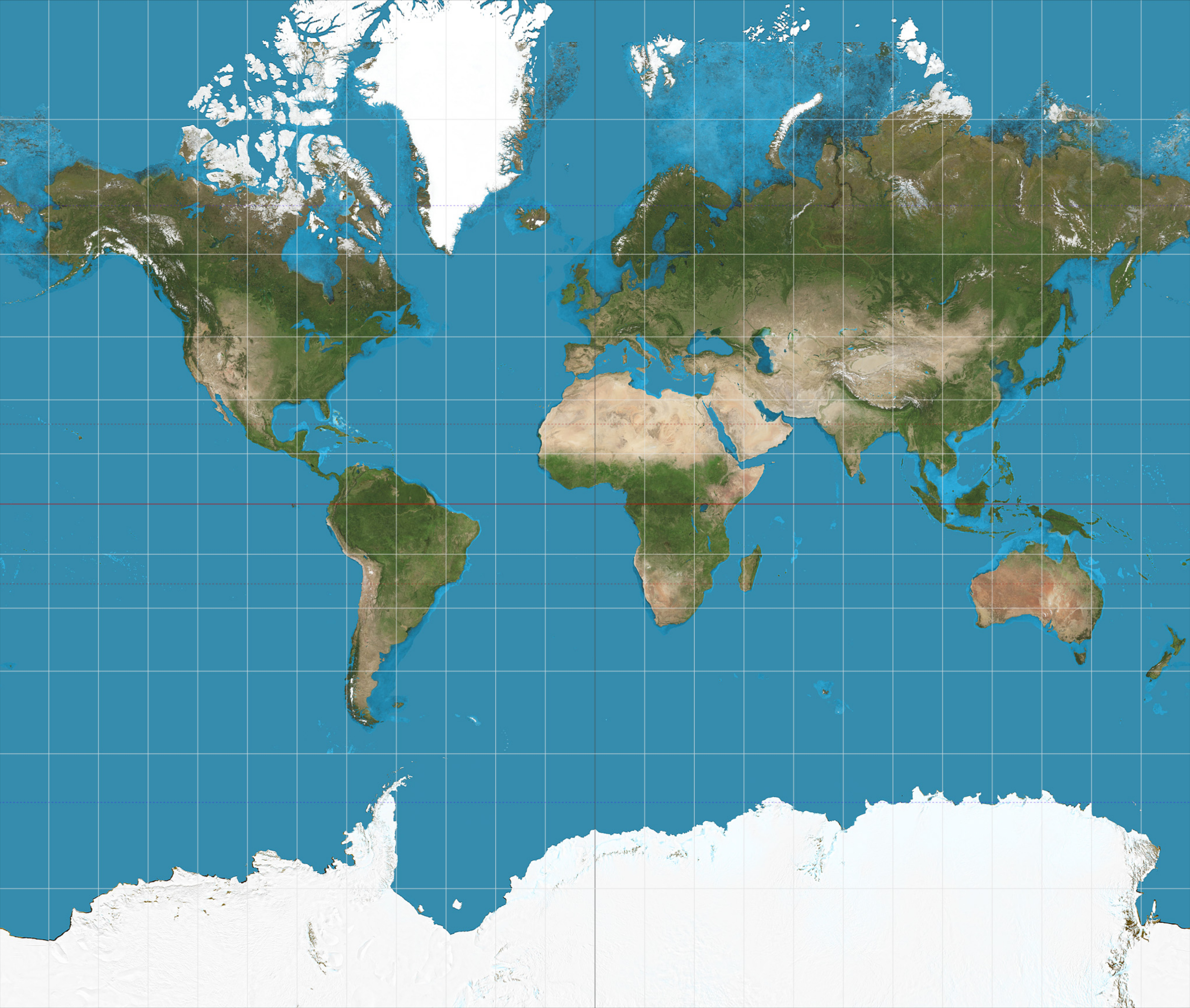 The world on Mercator projection between 82°S and 82°N. 15° graticule. Imagery is a derivative of NASA’s Blue Marble summer month composite with oceans lightened to enhance legibility and contrast. Image created with the Geocart map projection software.